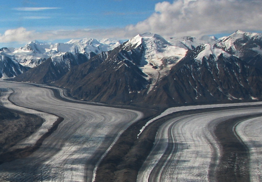 Aerial view of Kaskawulsh Mountain and Glacier, Kluane National Park.